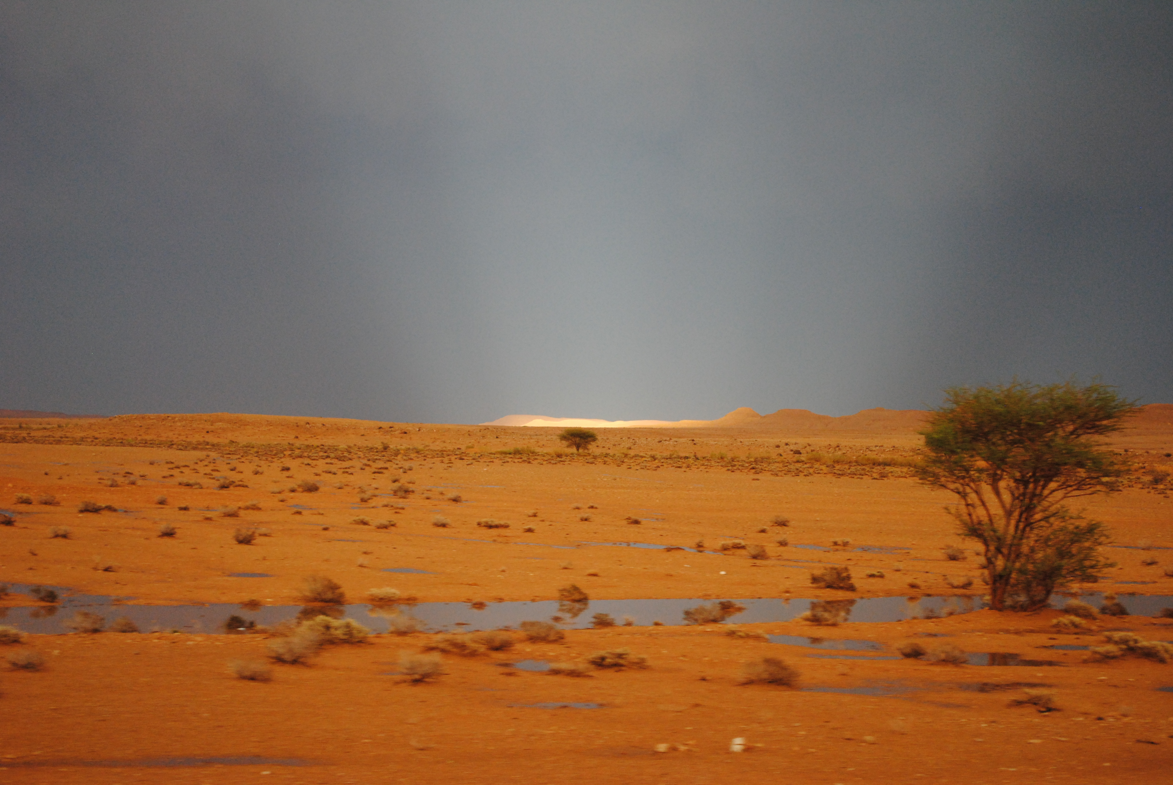 Libyan Desert-Flash floods